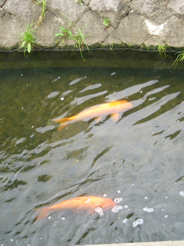 Carp(Syoujaku_River in Osaka,Japan)